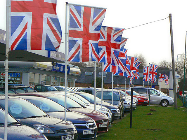 Display of patriotism . . . and second hand cars. Showroom on Woodborough Road, Mapperley.